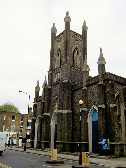 St Mary's church Somers Town London, near to Camden Town, Camden, Great Britain.